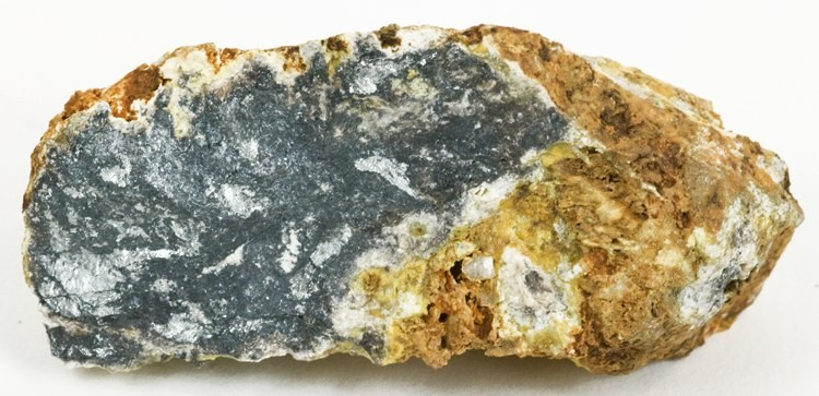 Antimony Locality: Tom Moore Mine (Erskine Creek Mine), Erskine Creek deposits, Erskine Creek, Erskine Creek District, Kern County, California, USA (Locality at ) Size: 5.3 x 2.7 x 2.4 cm. A rare, old ore specimen of solid native antimony from an uncommon California locality - the Tom Moore Mine, Erskine Creek, Kern County. The moderate-lustre, battleship-gray, massive antimony has an oxidized rind coating the native metal. Hefty for its size at 59 grams or just over 2 ounces. Ex. Giles Mead and Cal Tech Collections.